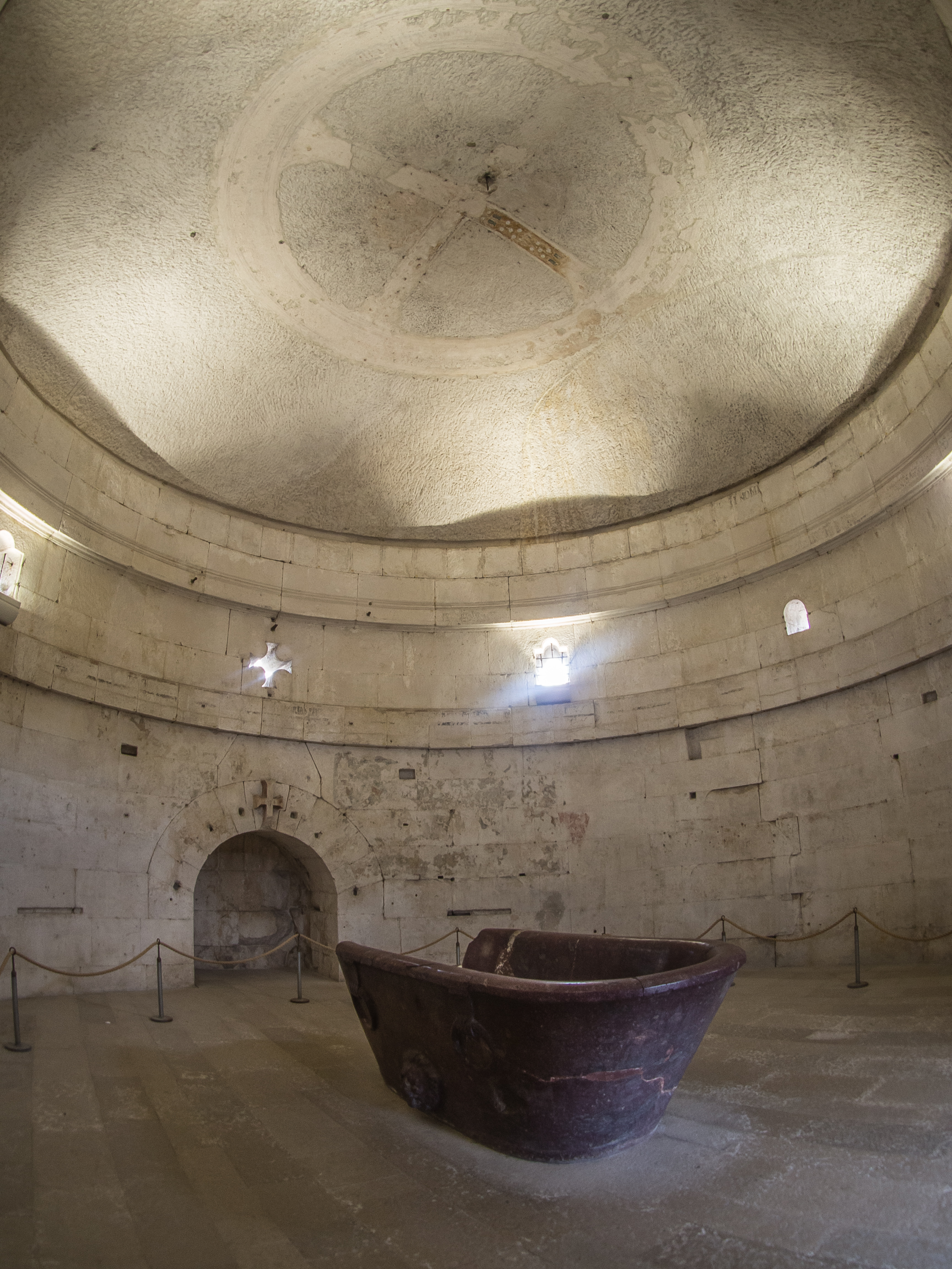 Ravenna - Mausoleum of Theoderic - inside top level wideangle